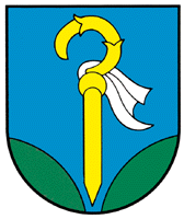 Coat of arms of Wangen, Canton Schwyz, Switzerland